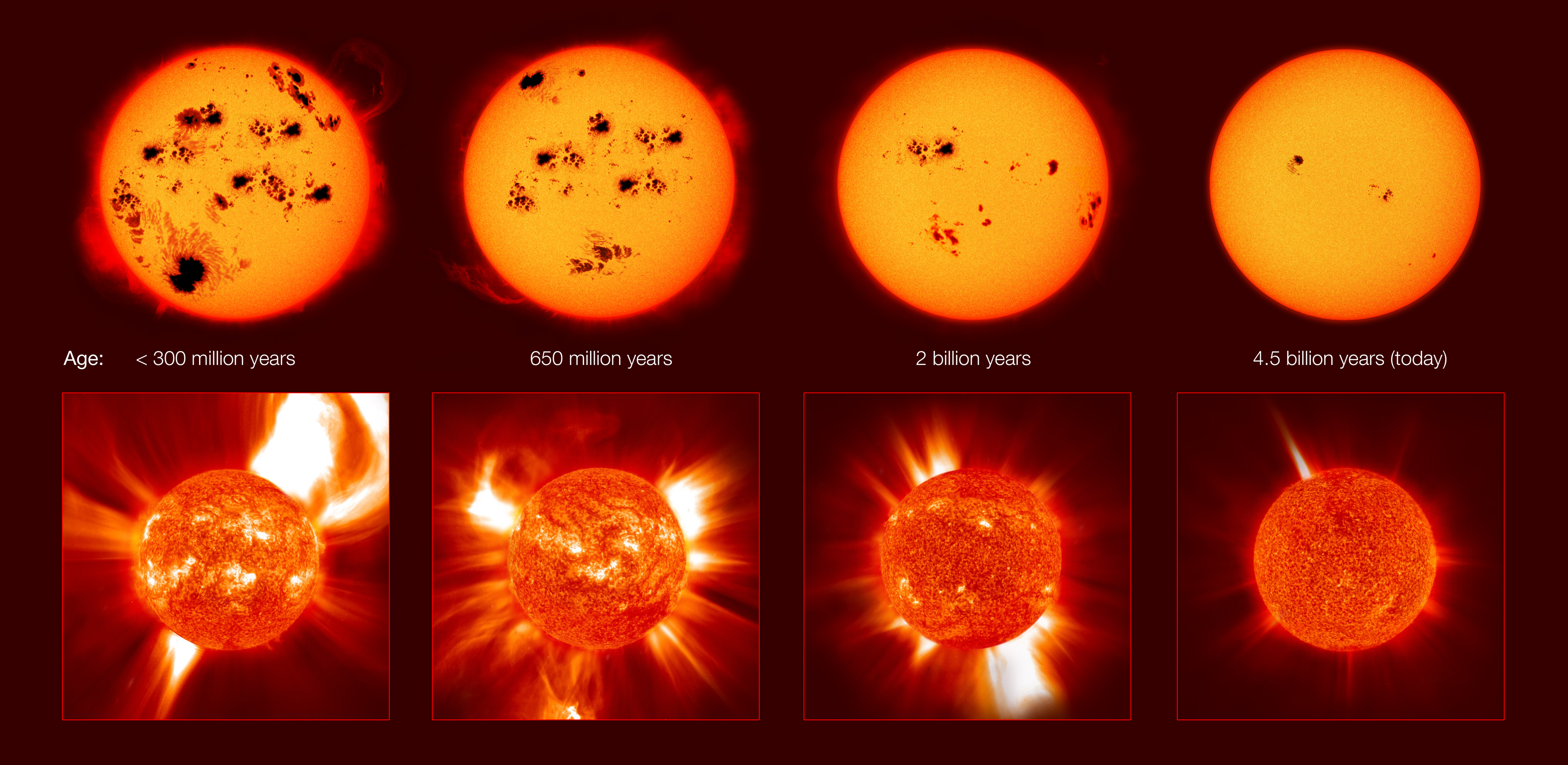 Stars similar to our Sun — “solar proxies” — enable scientists to look through a window in time to see the harsh conditions prevailing in the early or future Solar System, as well as in planetary systems around other stars. These studies could lead to profound insights into the origin of life on Earth and reveal how likely (or unlikely) the rise of life is elsewhere in the cosmos. This work has revealed that the Sun rotated more than ten times faster in its youth (over four billion years ago) than today generating a stronger magnetic field and stronger activity. This also meant that the young Sun emitted X-rays and ultraviolet radiation up to several hundred times stronger than the Sun does today.